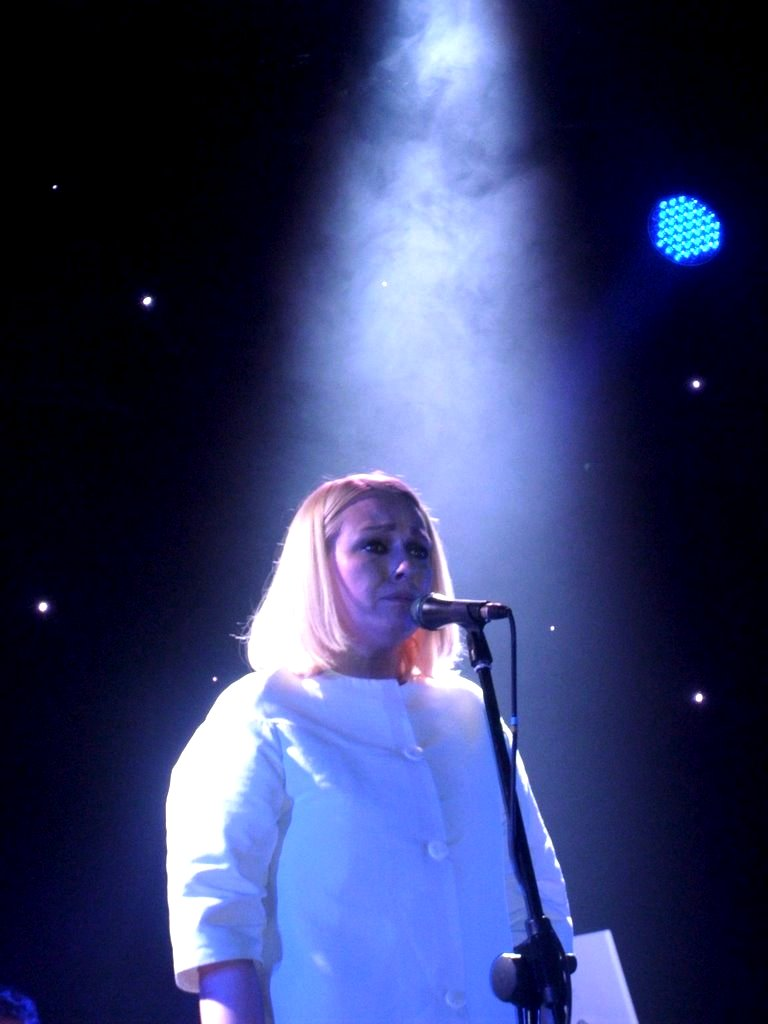 Nosowska at the concert promoting album 'MURP' by Hey.